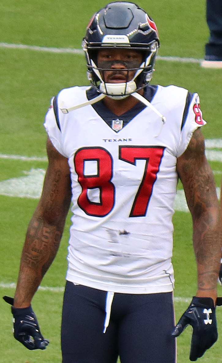 Demaryius Thomas, a National Football League player.